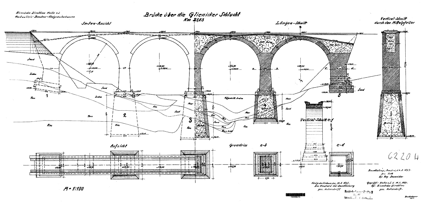 Architectural sketch of the Lindenberger Viadukt from 1897. The listed Lindenberger Viadukt (sometimes also called: Glienicker Viadukt) is an about 95 Meter long arch bridge of the Railway line Königs Wusterhausen–Grunow in the District Oder-Spree, Brandenburg, Germany. The viaduct is situated in the west of the station Lindenberg. The bridge spans the about 25 m deep Chine of Glienicke (german: Schlucht von Glienicke) in the valley of the Blabbergraben. The bridge was opened in 1898, destroyed at the end of World War II and rebuilt in 1949. It was extensively renovated between July and November 2014.